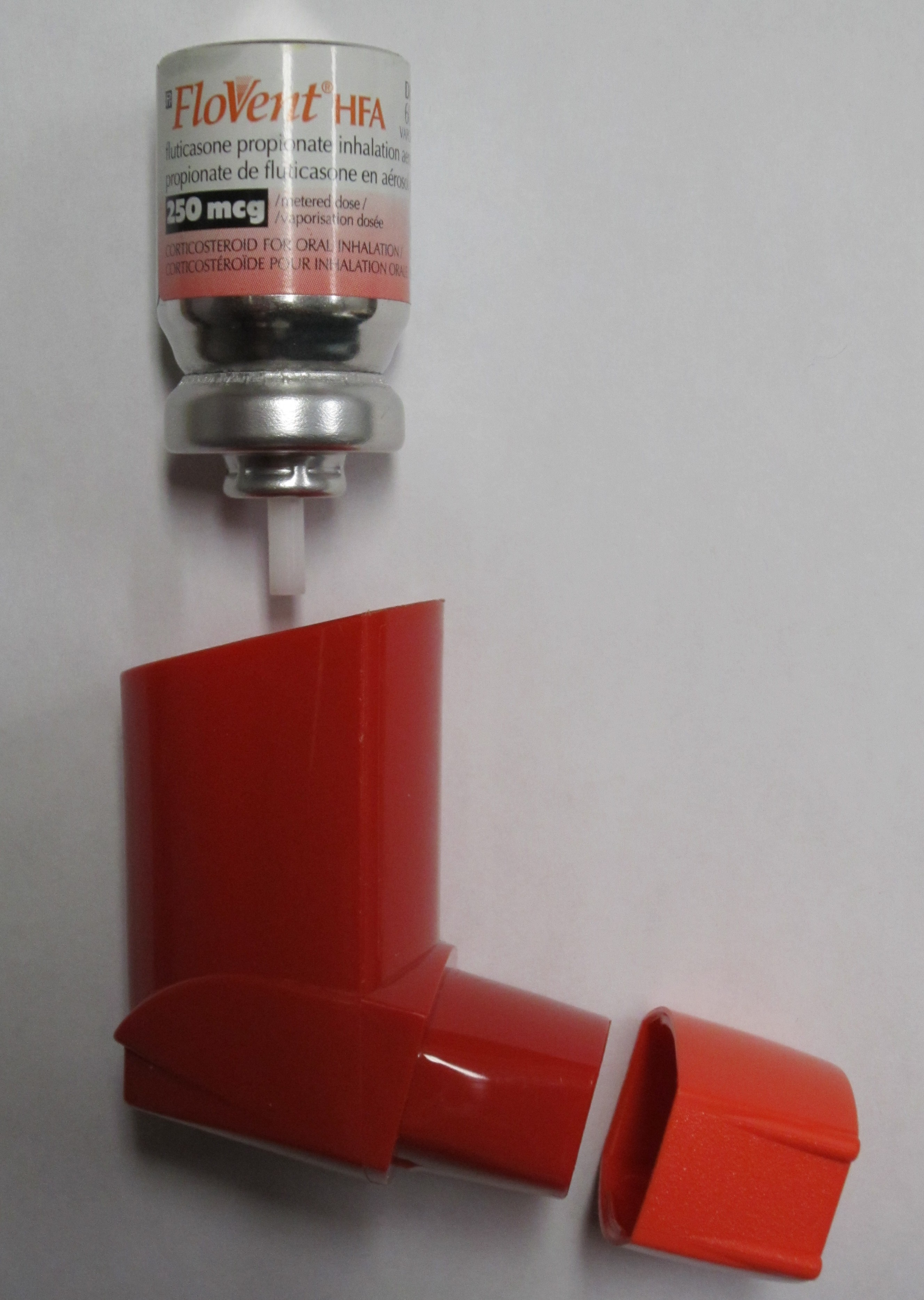 Fluticasone metered dose inhaler